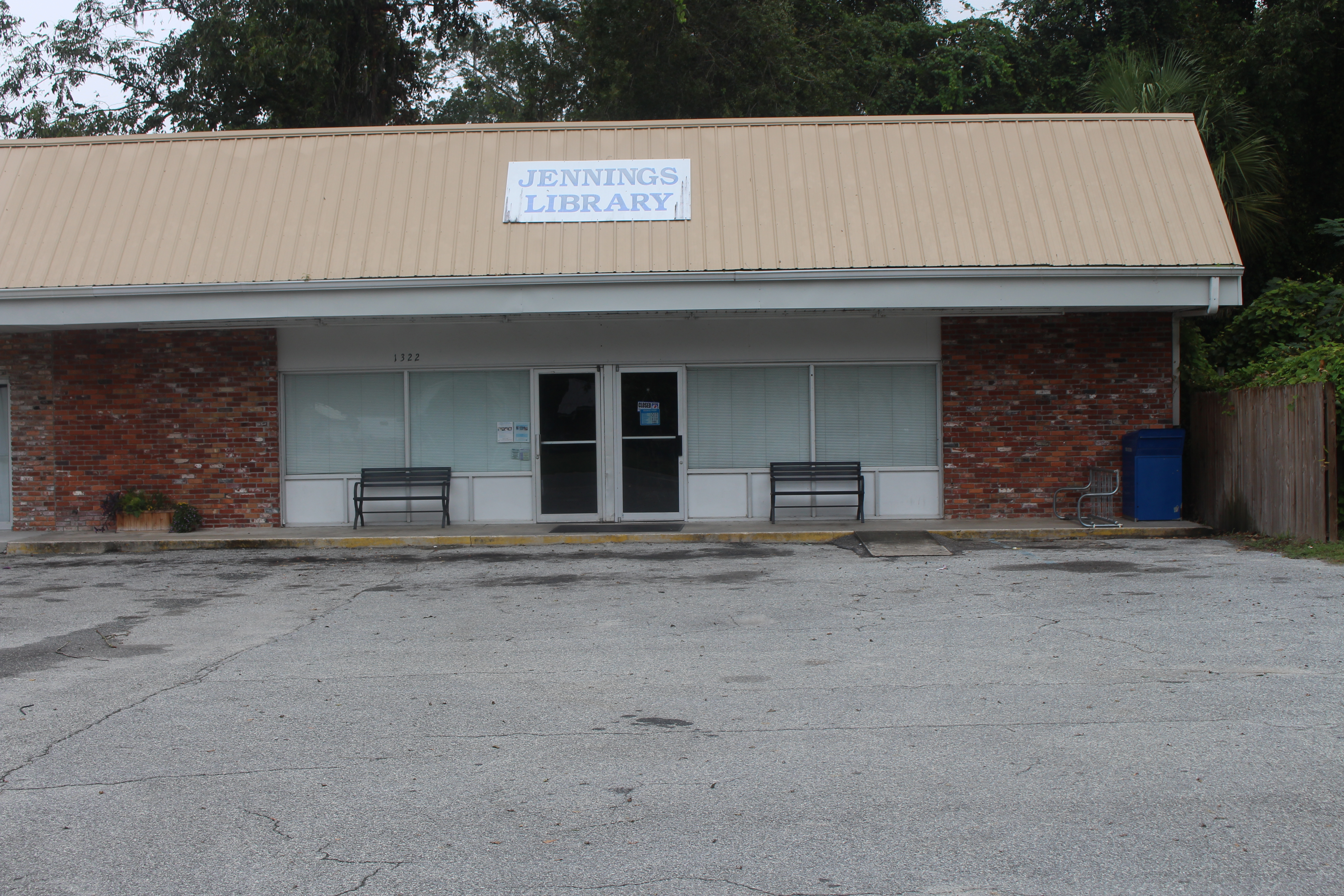 Jennings library, Jennings, Hamilton County, Florida